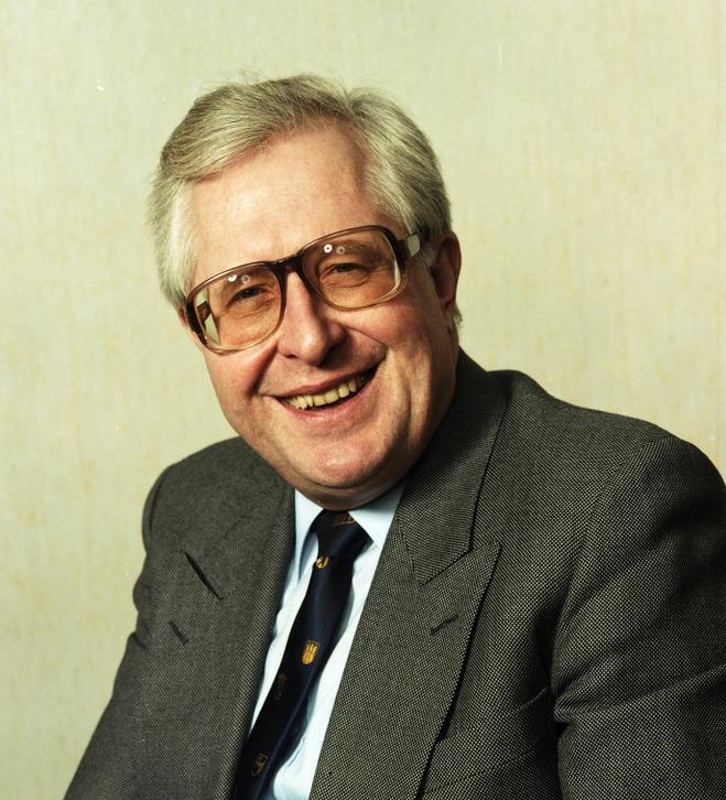 Title: Bernhard Vogel Extra information: Porträt People in the image: Vogel, Bernhard Dr.: Ministerpräsident von Rheinland-Pfalz, Ministerpräsident von Thüringen, CDU, Bundesrepublik Deutschland Factual corrections and alternative descriptions are encouraged separately from the original description. Additionally errors can be reported at this page to inform the Bundesarchiv. Original historic description: 26.2.1988 Dr. Bernhard Vogel, Ministerpräsident des Landes Rheinland-Pfalz, Präsident des Bundesrates 1987/1988